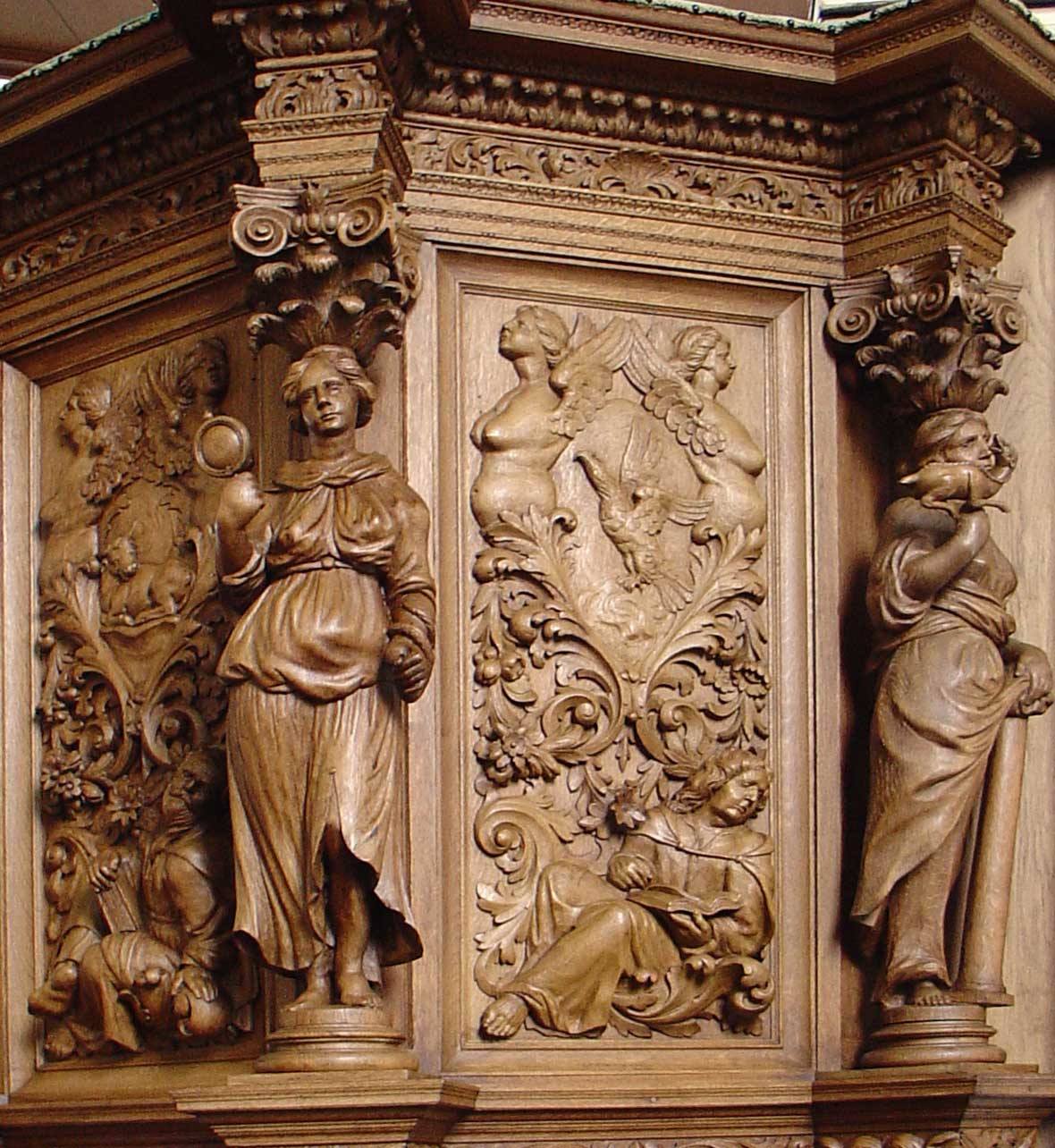 Pulpit in the church of Uithuizermeeden